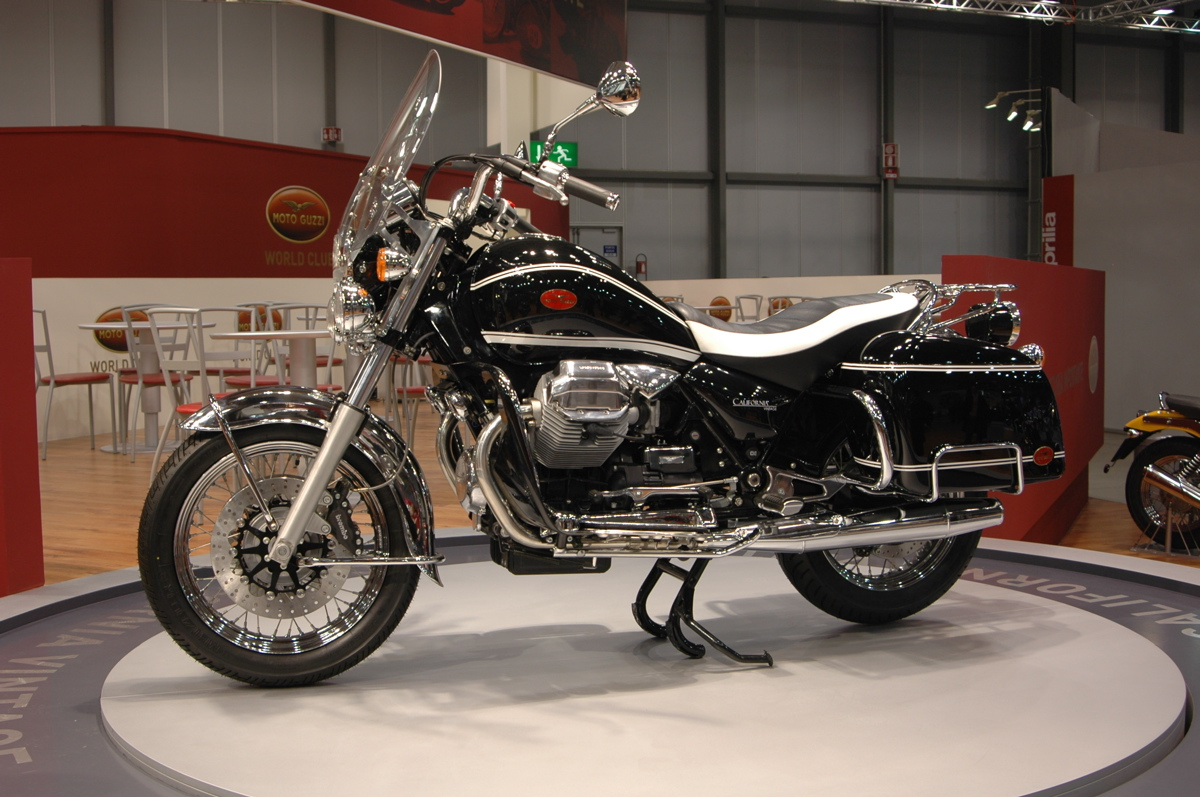 Moto Guzzi California Vintage (2005) author:Bertalan Ivan